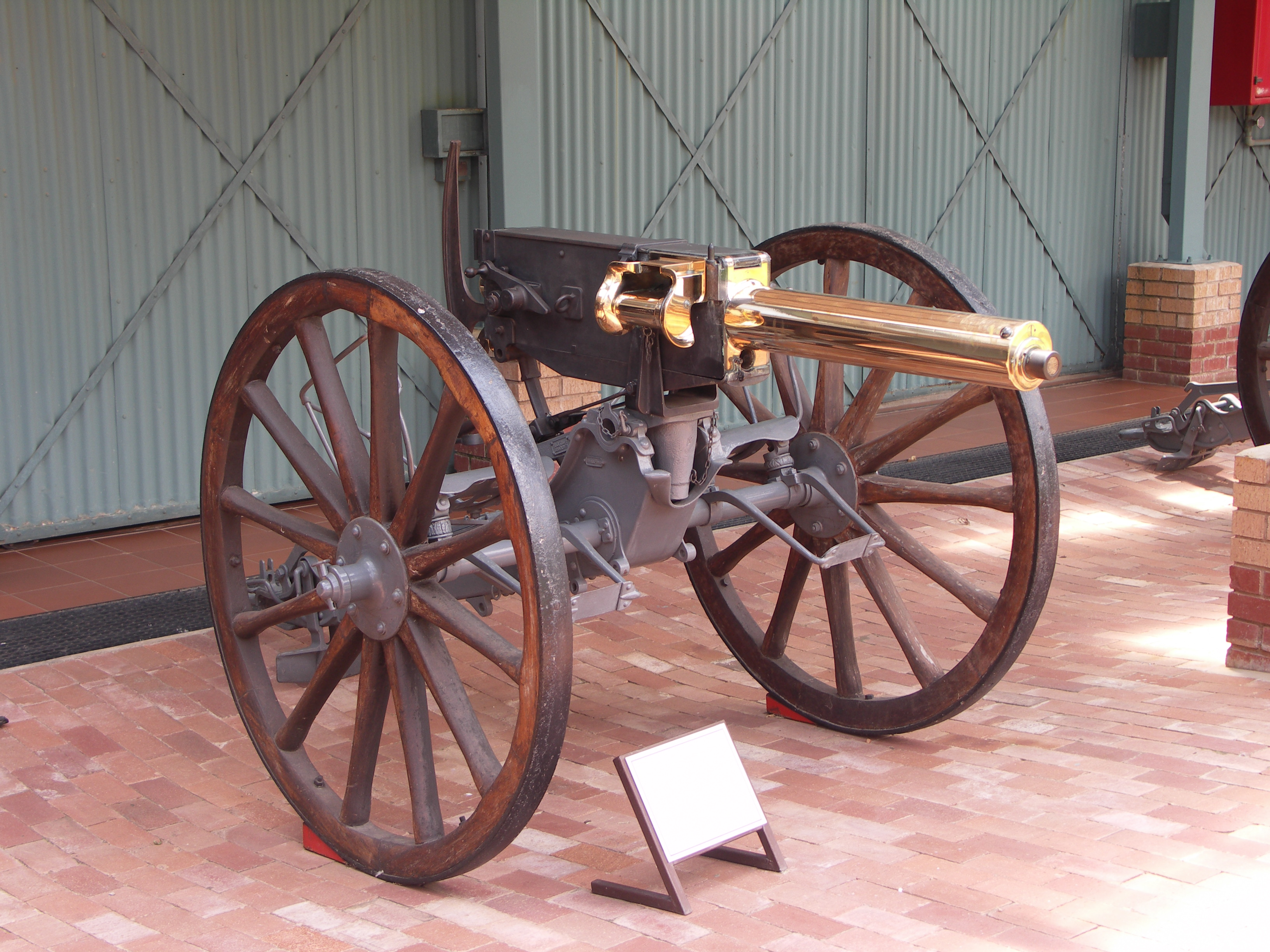 A German QF 1 pounder pom-pom located at the South African national Museum of Military History in Johannesburg. Engraved with Nr: 542, Gew:194,8kg According to museum records Nr:542 and Nr:543 was surrendered to South African forces under command of Gen Louis Botha on 19 July 1915 at Khorab in South West Africa. Nr 542 no longer has manufacturers markings, but Nr 543 (also housed at the same museum) has a metal tag that reads: 3,7 cm Masch.K. Nr 543 Deutsche Waffen und Munitionsfabriken Berlin. 1903. MAXIMPAT.